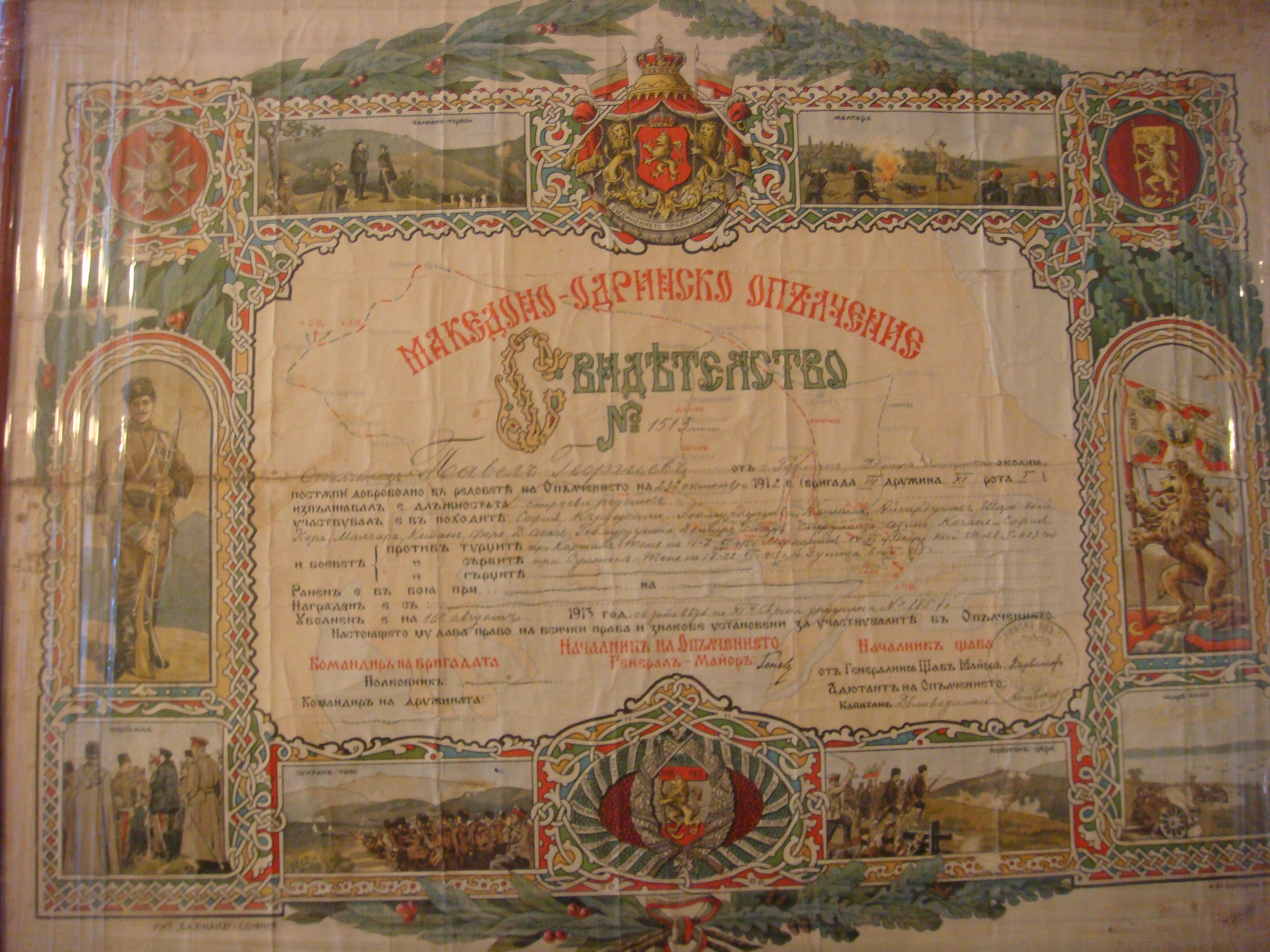 Certificate for service in the Macedonian-Adrianopolitan Volunteer Corps.